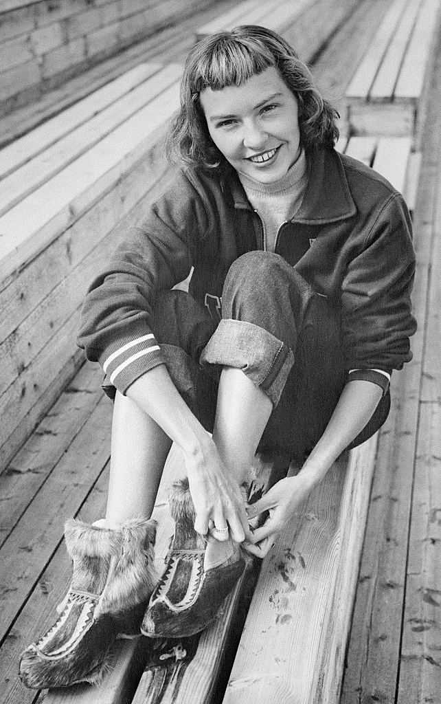 1952 Press Photo Gail Peters US Olympic 200 meter breaststroke in Helsinki